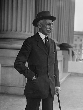 Title: Rep. Edwin M. Carpenter of Pa., [2/25/25] Abstract/medium: 1 negative : glass ; 5 x 7 in. or smaller